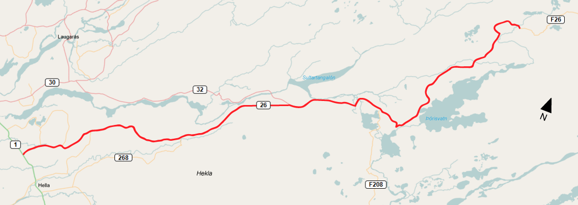 Road 26 in Iceland marked in red. This map may be incomplete, and may contain errors.